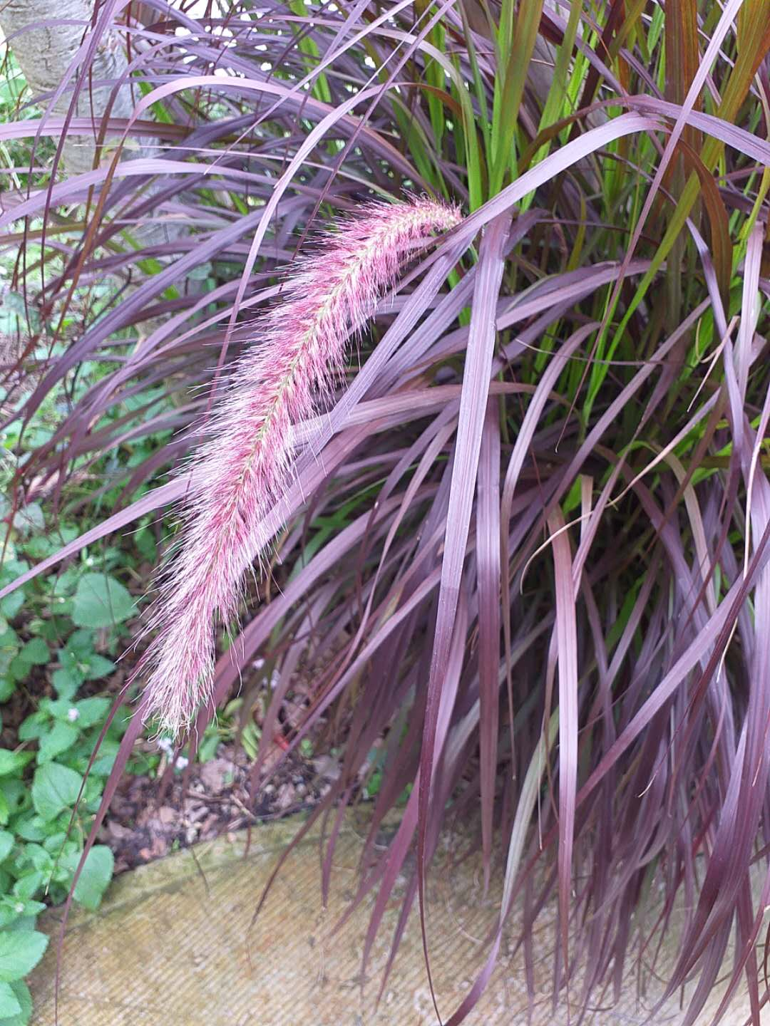 Inflorescence of Pennisetum purpureum. The spikes that are like fine needles are actually extremely soft to touch.